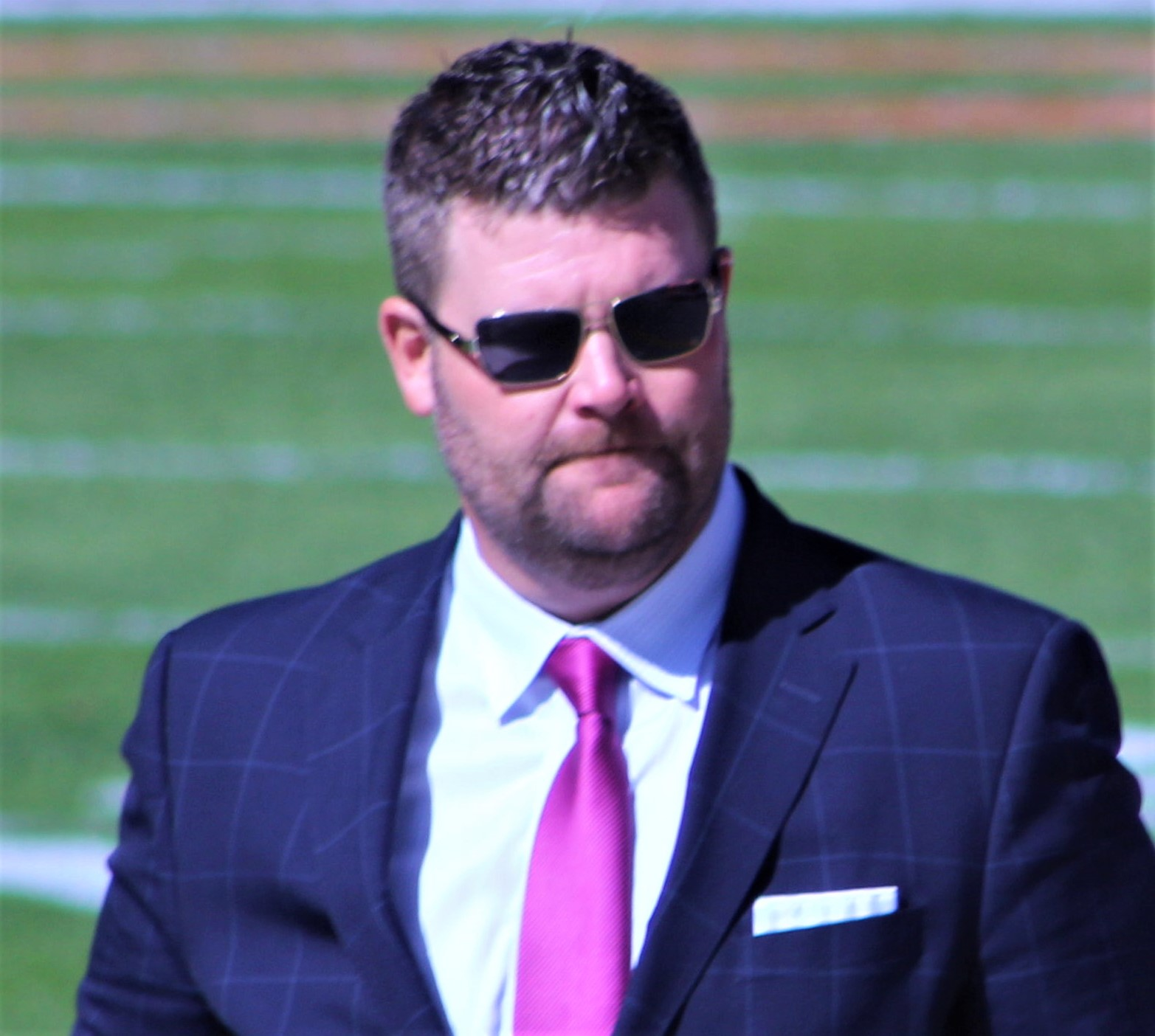 Jon Robinson with the Titans on October 13, 2019